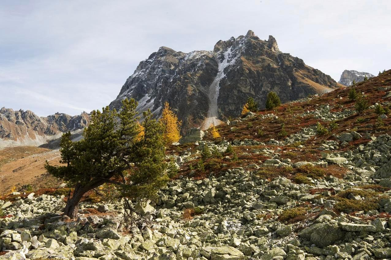 Touno (3017) as seen from west, Valais